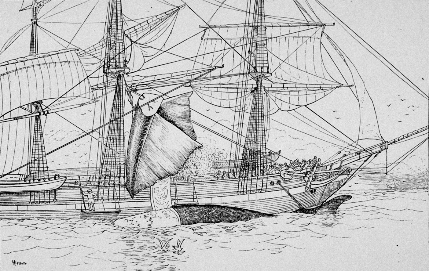 A ship on the Northwest coast of America cutting in her last right whale. The whalers are hoisting the baleen ("whalebone") onto deck. (courtesy NOAA Photo Library)